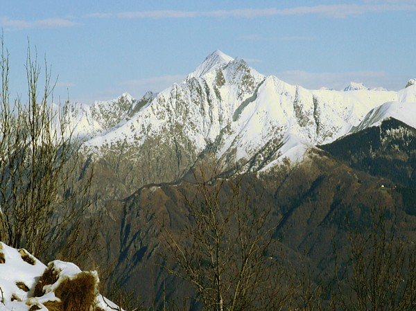 Monte Zeda (2156 m)